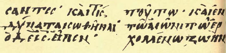 Scriveners facsimile edition (A Plain Introduction..., London 1894, p. 131)